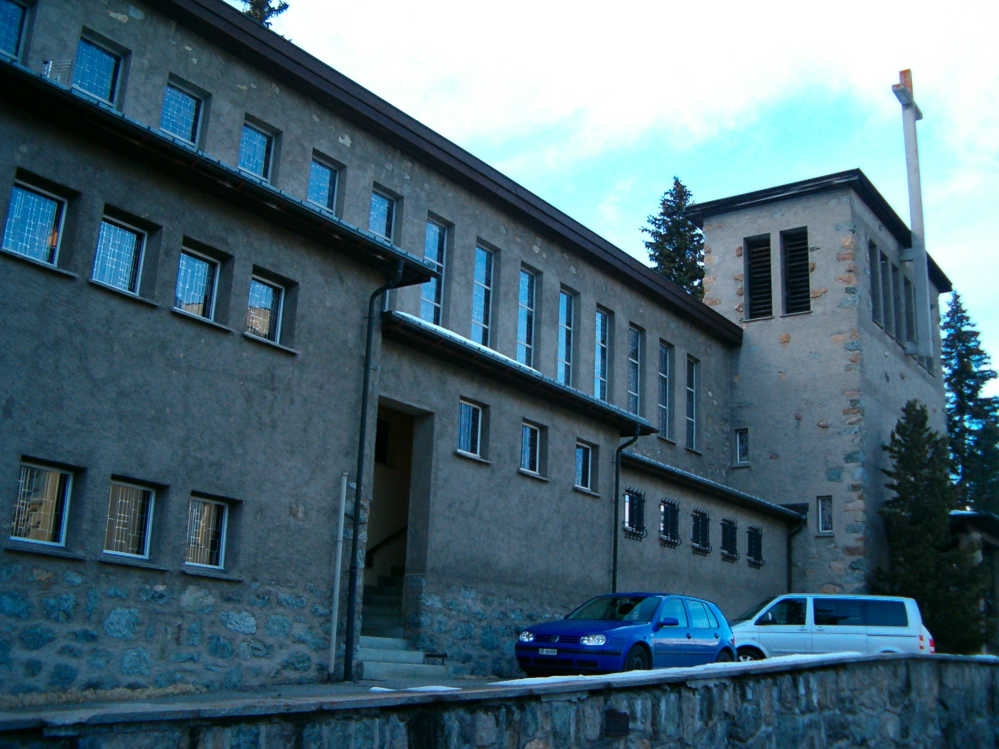 Catholic church from 1936, Arosa/Switzerland